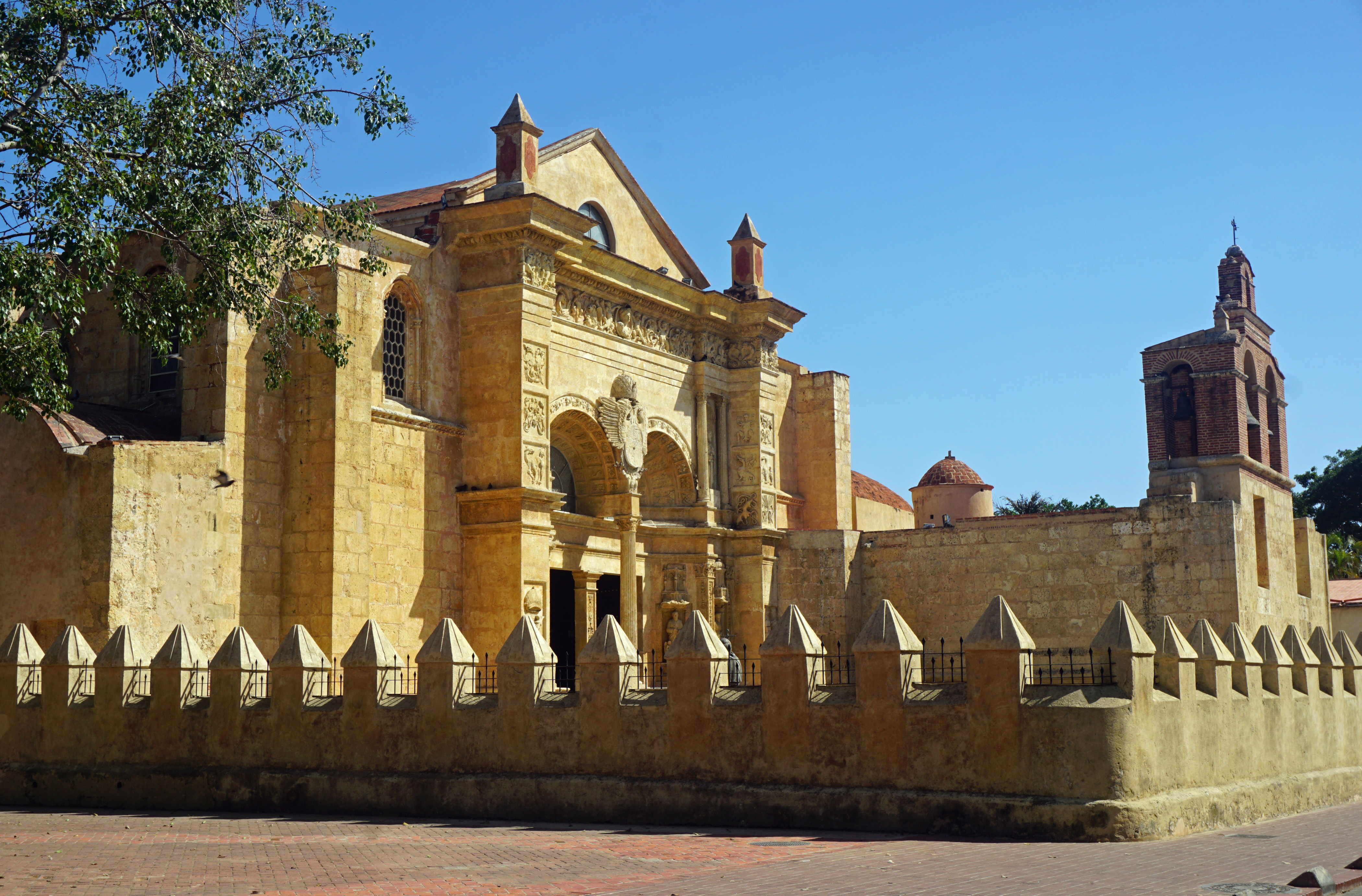 Catedral Primada de América o Basílica Santa María la Menor, Ciudad Colonial, Santo Domingo, RD.